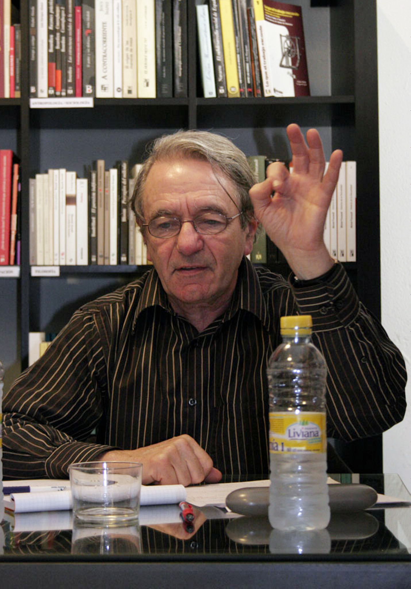 Jacques Rancière at a conference held in the Universidad Internacional de Andalucía, in Seville (Spain) in 2006.